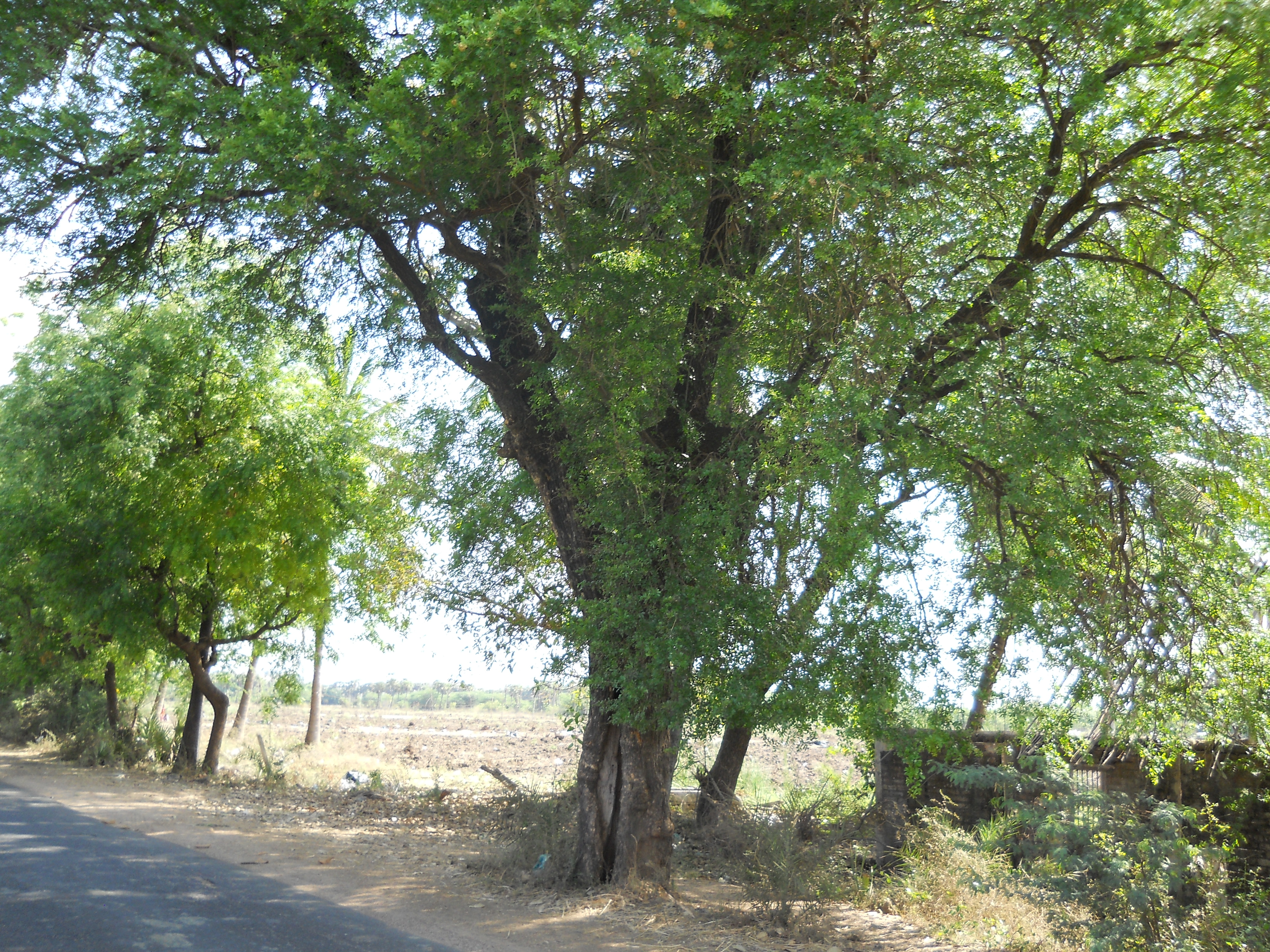 Tree hollow